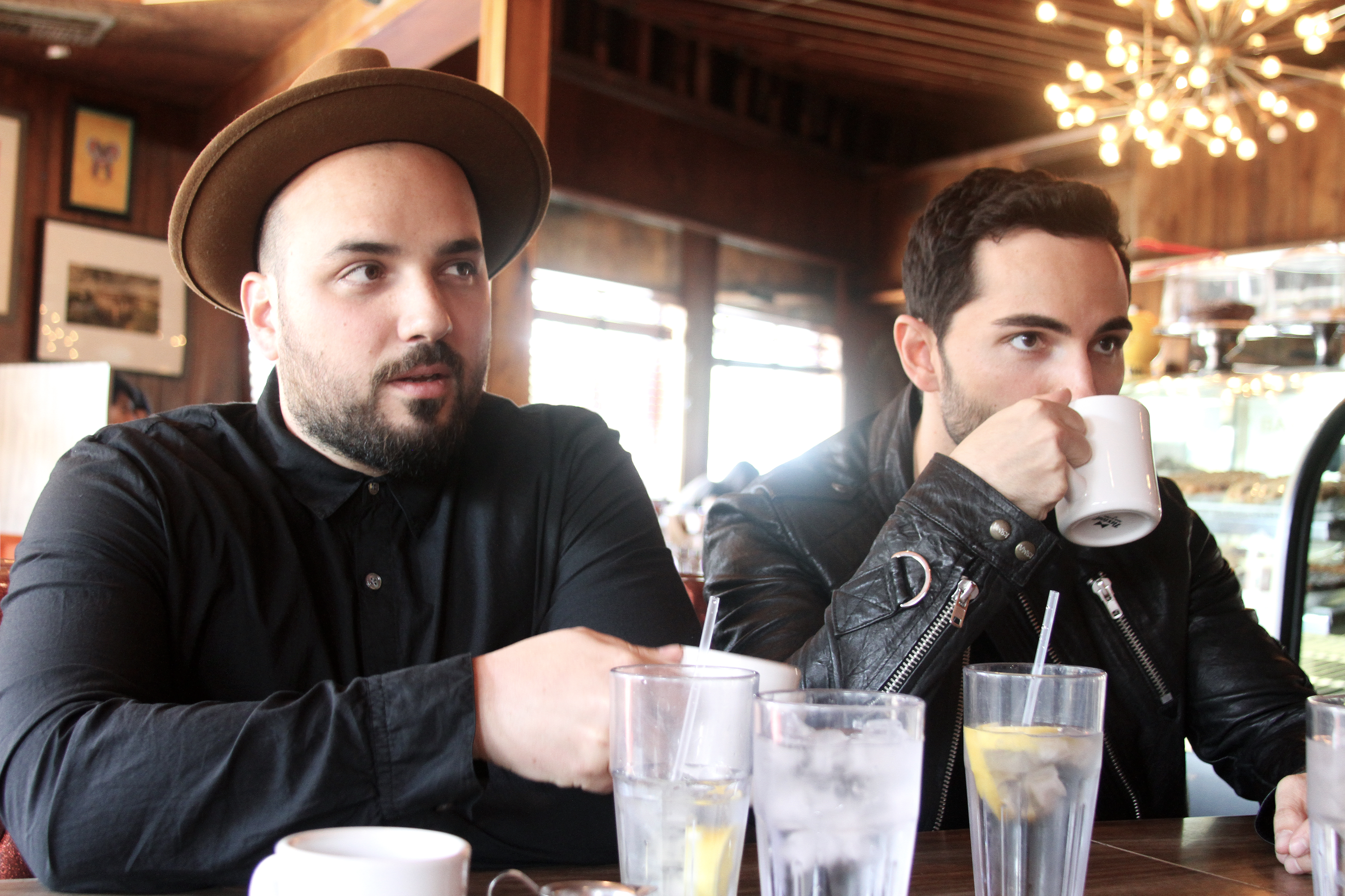 Picture of The Fliptones in May 2016